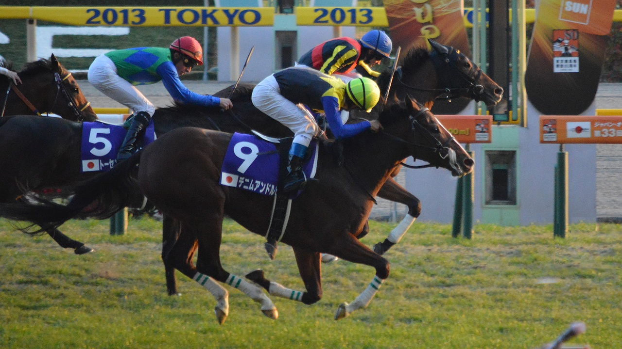 Japanese race horse Gentildonna at Tokyo racecourse. Tokyo (JPN) 24 Nov 2013Japan Cup (Grade 1) (3yo+) (Turf) 1m4f Firm RankHorse NameOddsAgeWgtTrainerJockey1stGentildonna (JPN)11/10FF48-9Sei IshizakaRyan Moore2ndDenim And Ruby (JPN)29/1F38-5Katsuhiko SumiiSuguru HamanakaOthers are omitted. (17 horses entered in a race.)